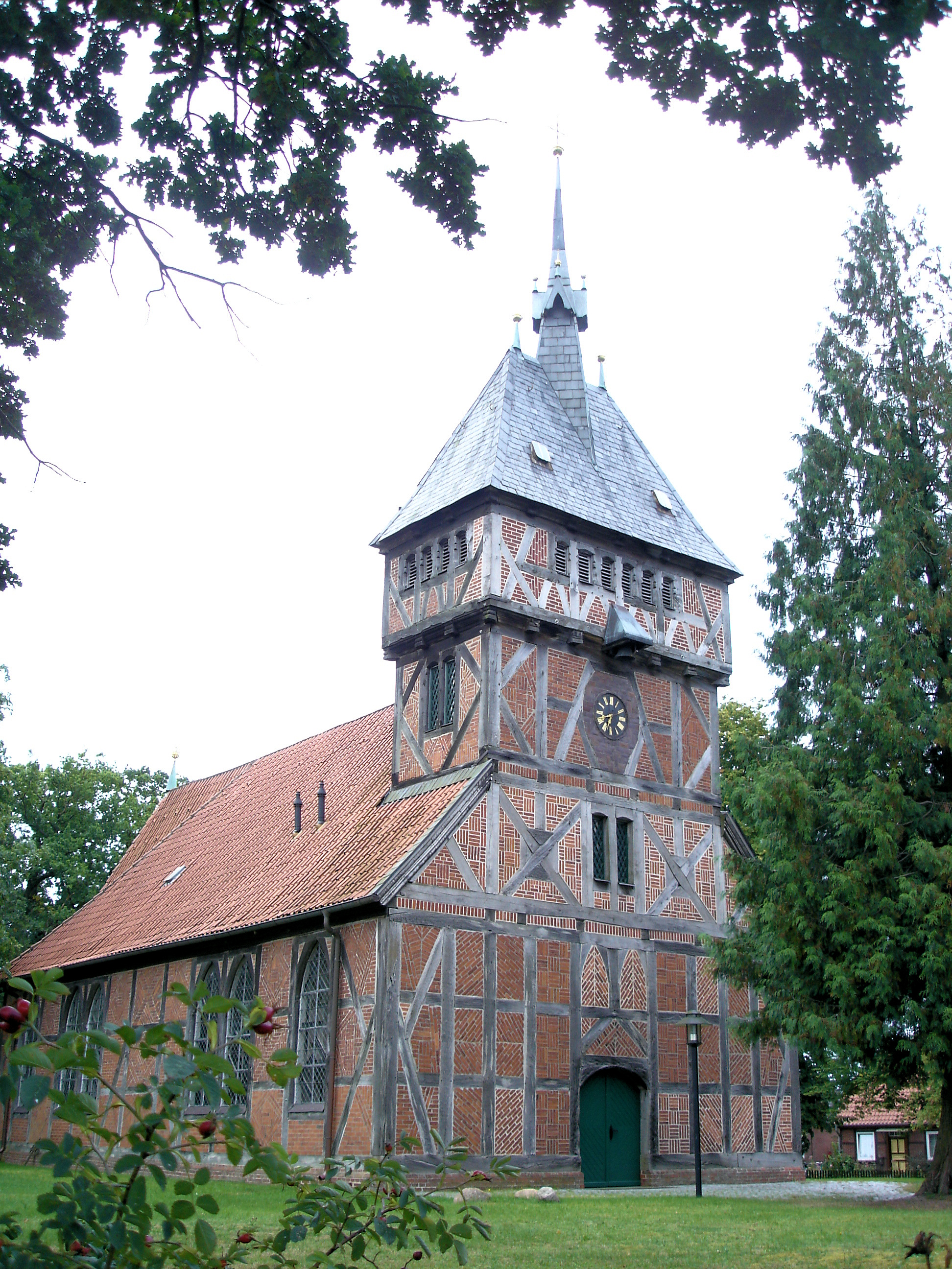 Lutheran Church in Tripkau (Amt Neuhaus), Lower Saxony, Germany